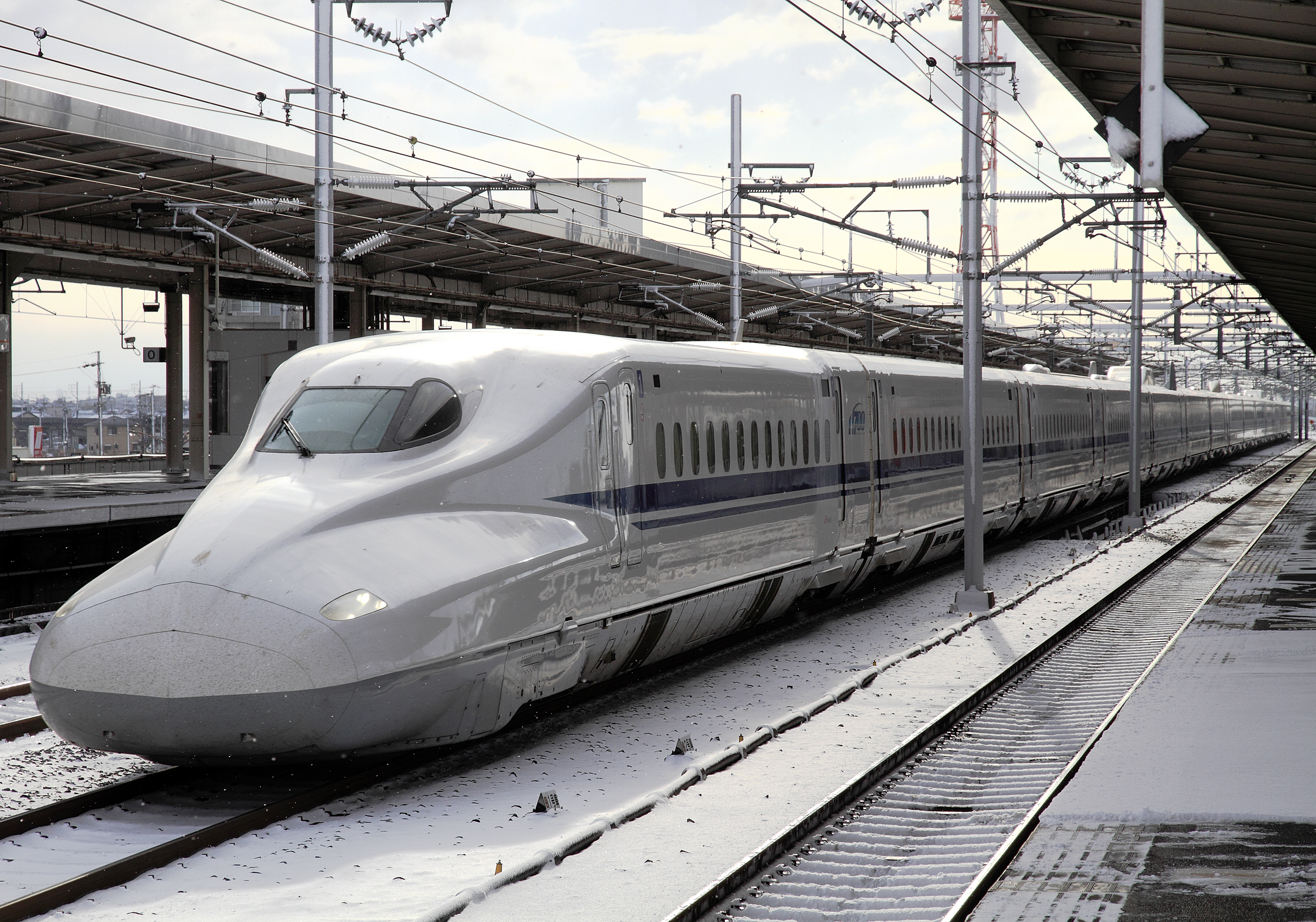 JR Central prototype N700 series shinkansen set Z0 passing through Gifu-Hashima Station